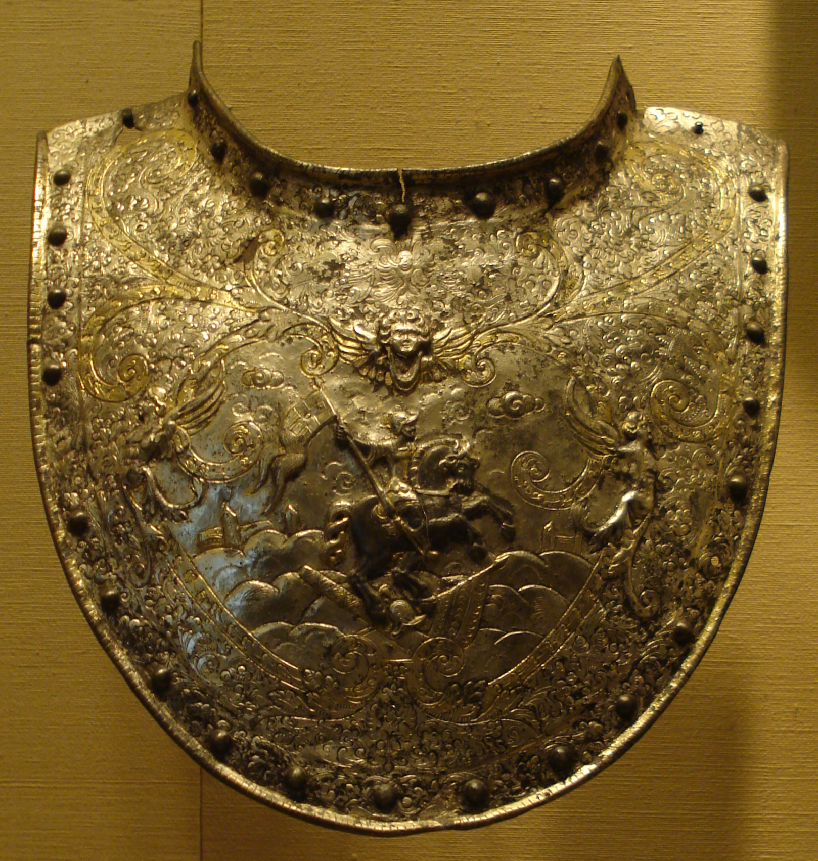 Engraved forward plate of a gorget. Blued steel, silvered, gilt. In the collection of the Metropolitan Museum of Art. Flemish or Dutch, c. 1620-30.